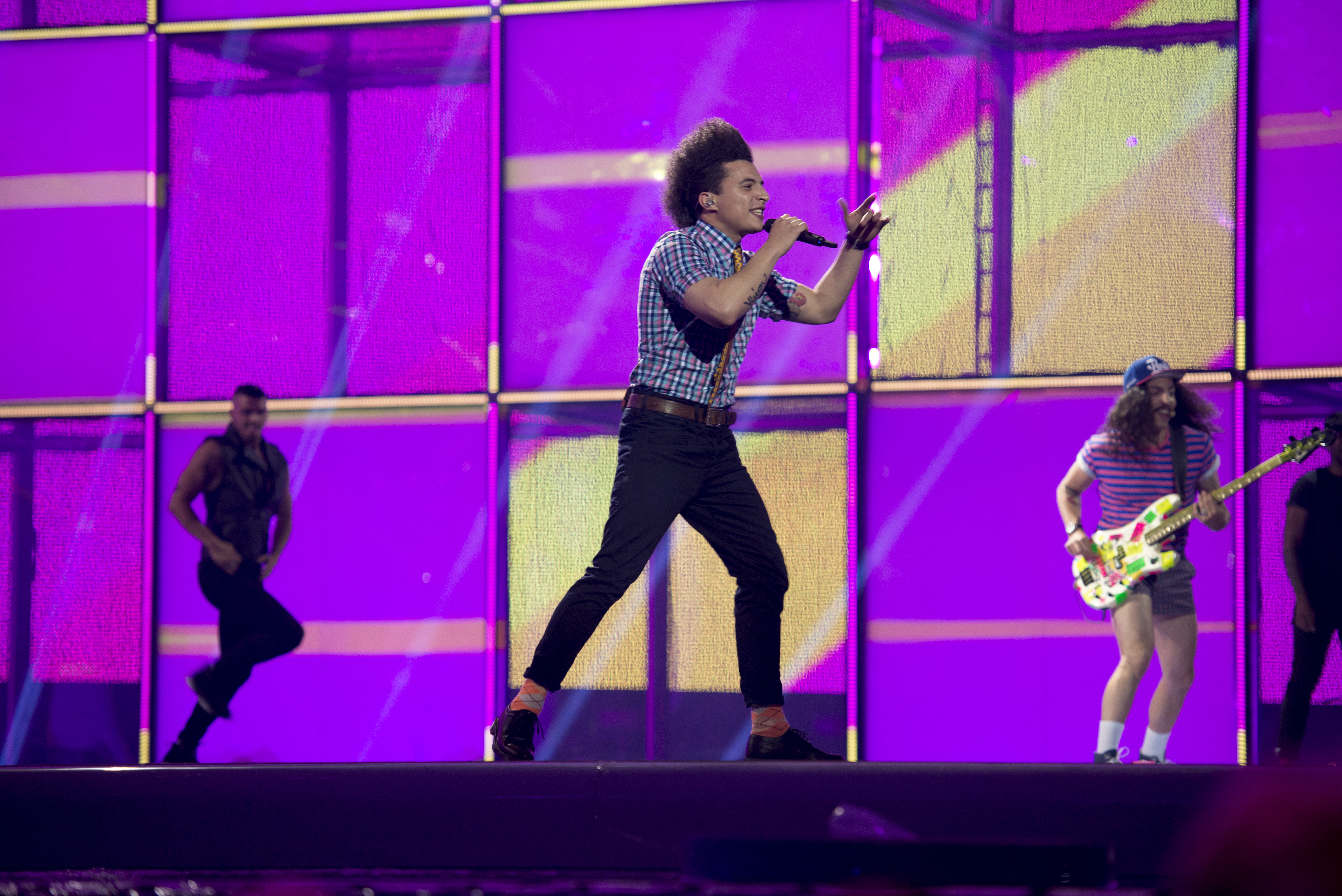 Twin Twin representing France with the song "Moustache" during the first dress rehearsal of the final of the Eurovision Song Contest 2014 Copenhagen. (Help translate this text)